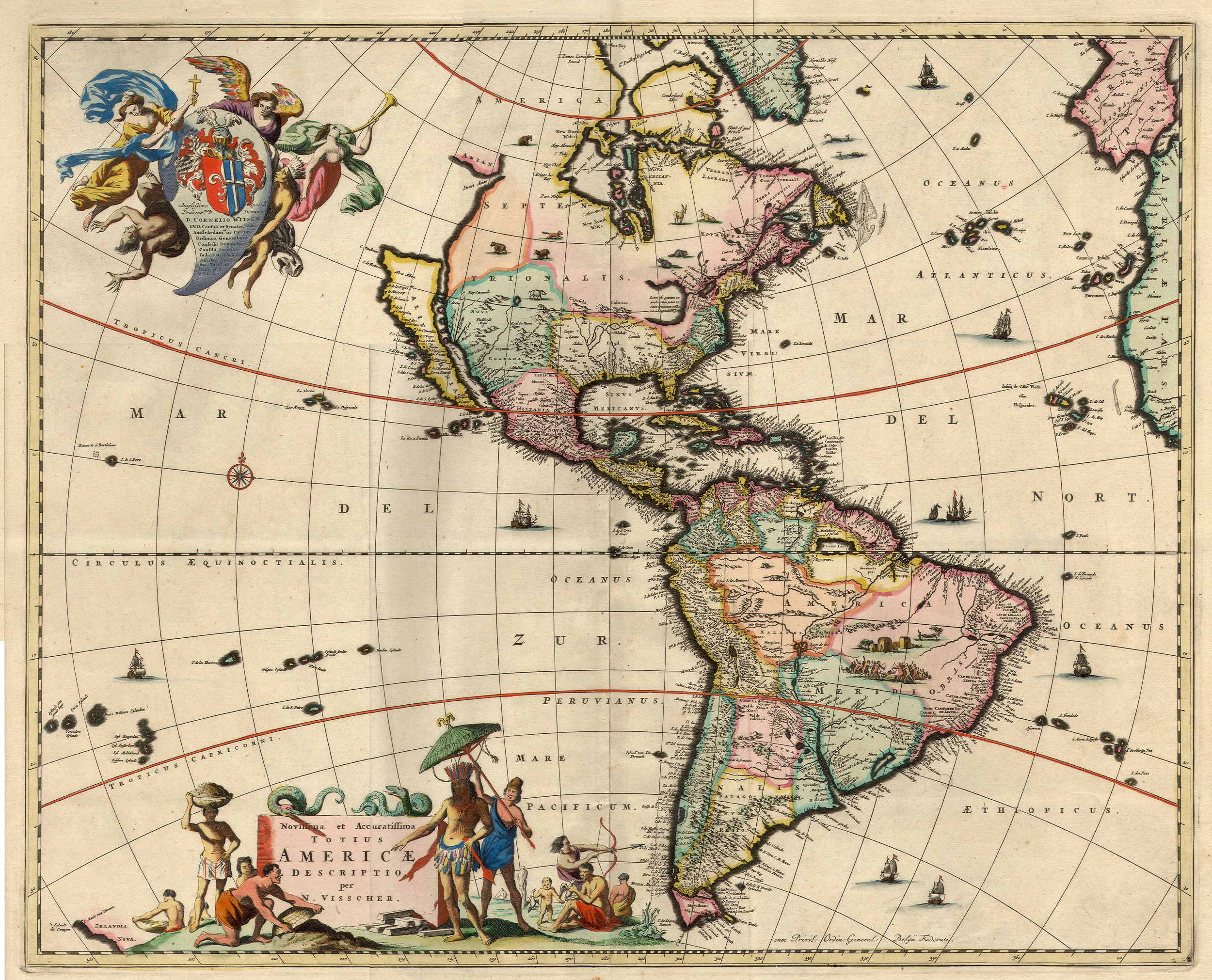 title=Novissima et Accuratissima Totius Americae Descriptio;size=43x54cm